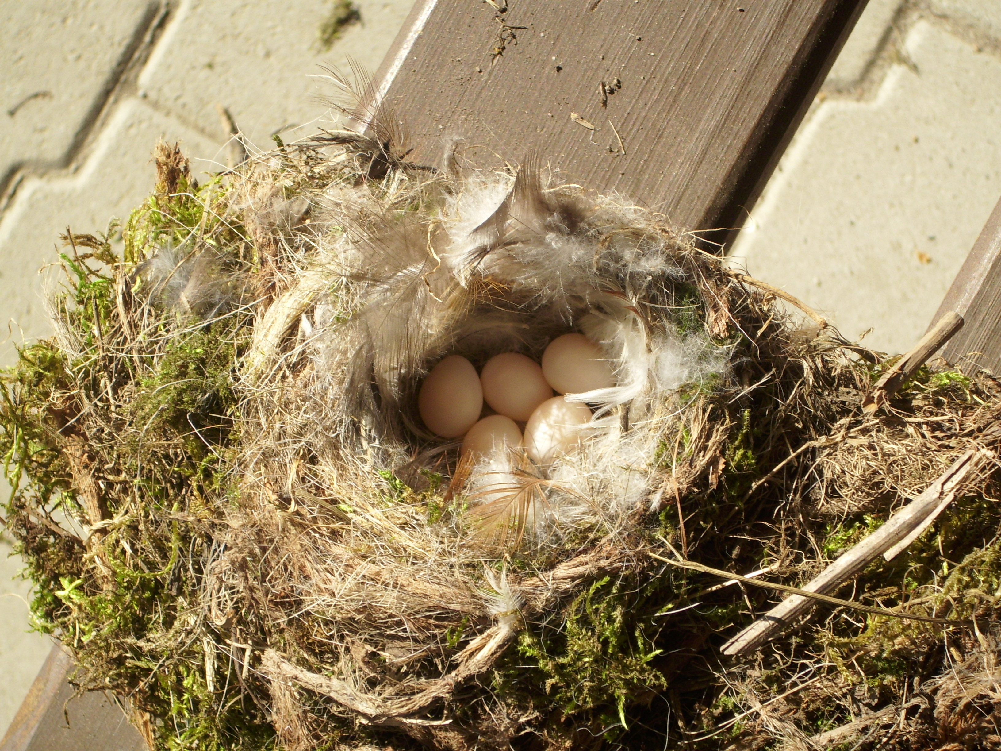 Nest of Black Redstart